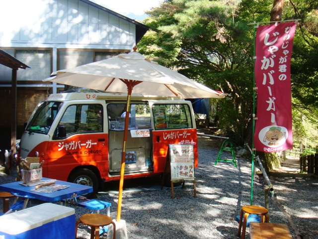 Snack wagon, Hinohara.